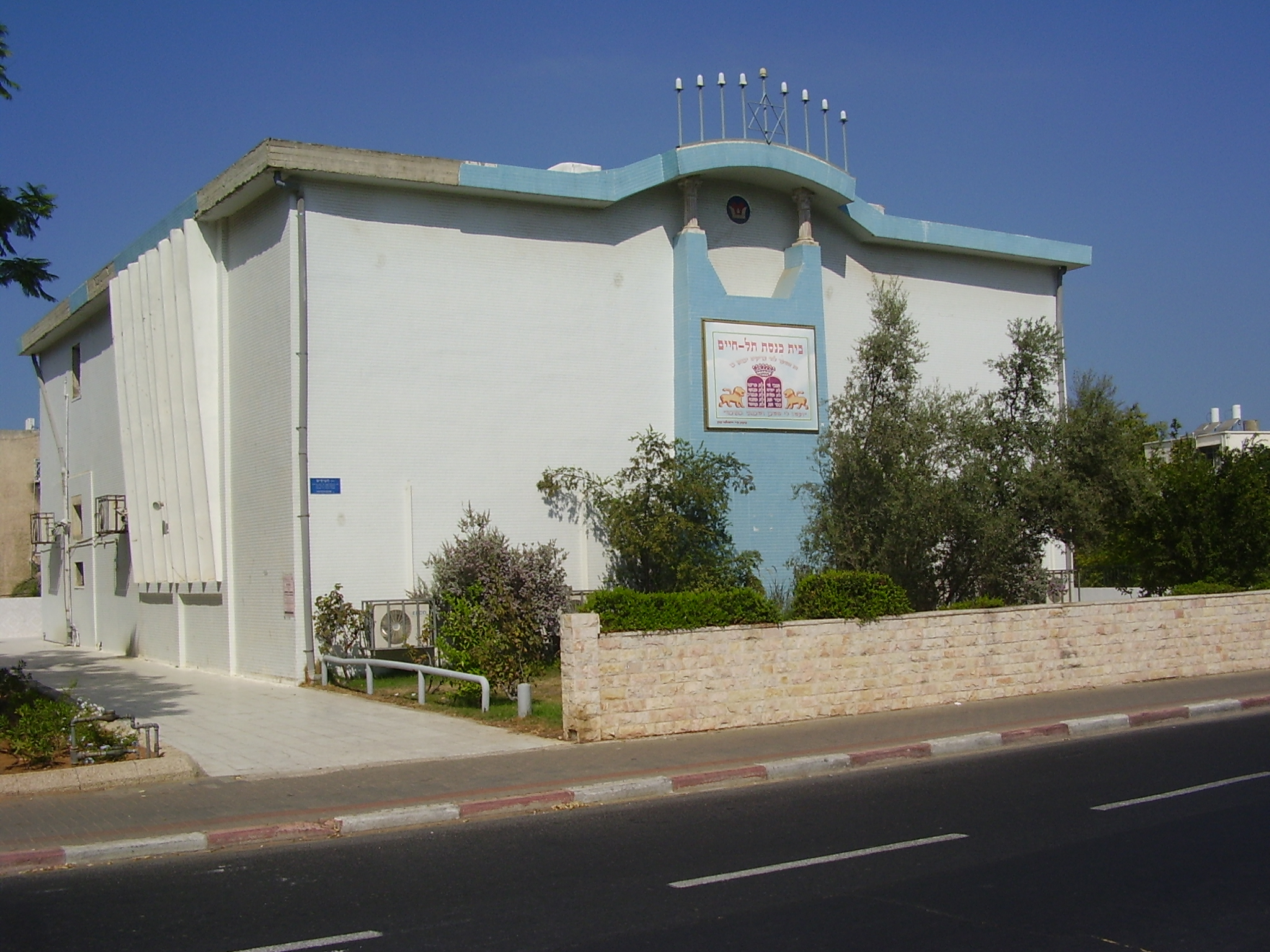 tel haim synagogue in tel aviv בית הכנסת בשכונת תל חיים בתל אביב